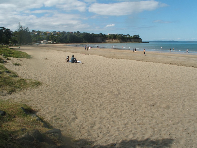 Browns Bay beach|Browns Bay, New Zealand|Browns Bay beach, facing North. Tiritiri Matangi|Tiritiri Matangi Island|Tiritiri Matangi is the island in the distance on the right. Taken by myself in December 2005.